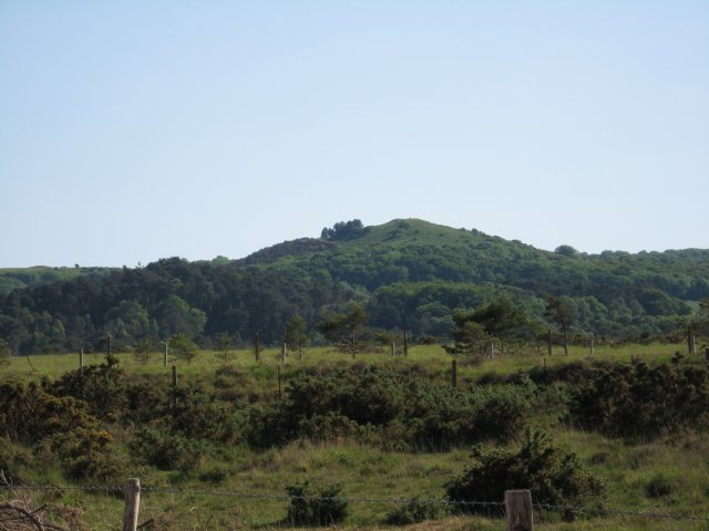 Creech Barrow A steep conical hill from where there are excellent 360 degree views